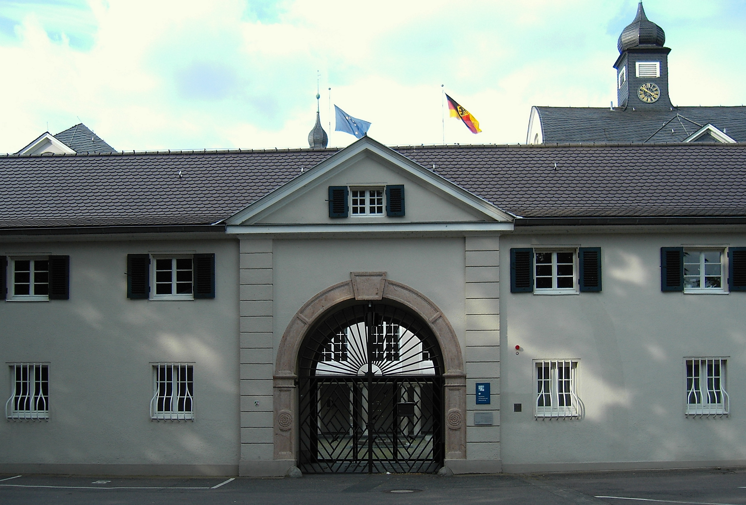 Federal Office for Building and Regional Planning (BBR) in Bonn-Rüngsdorf